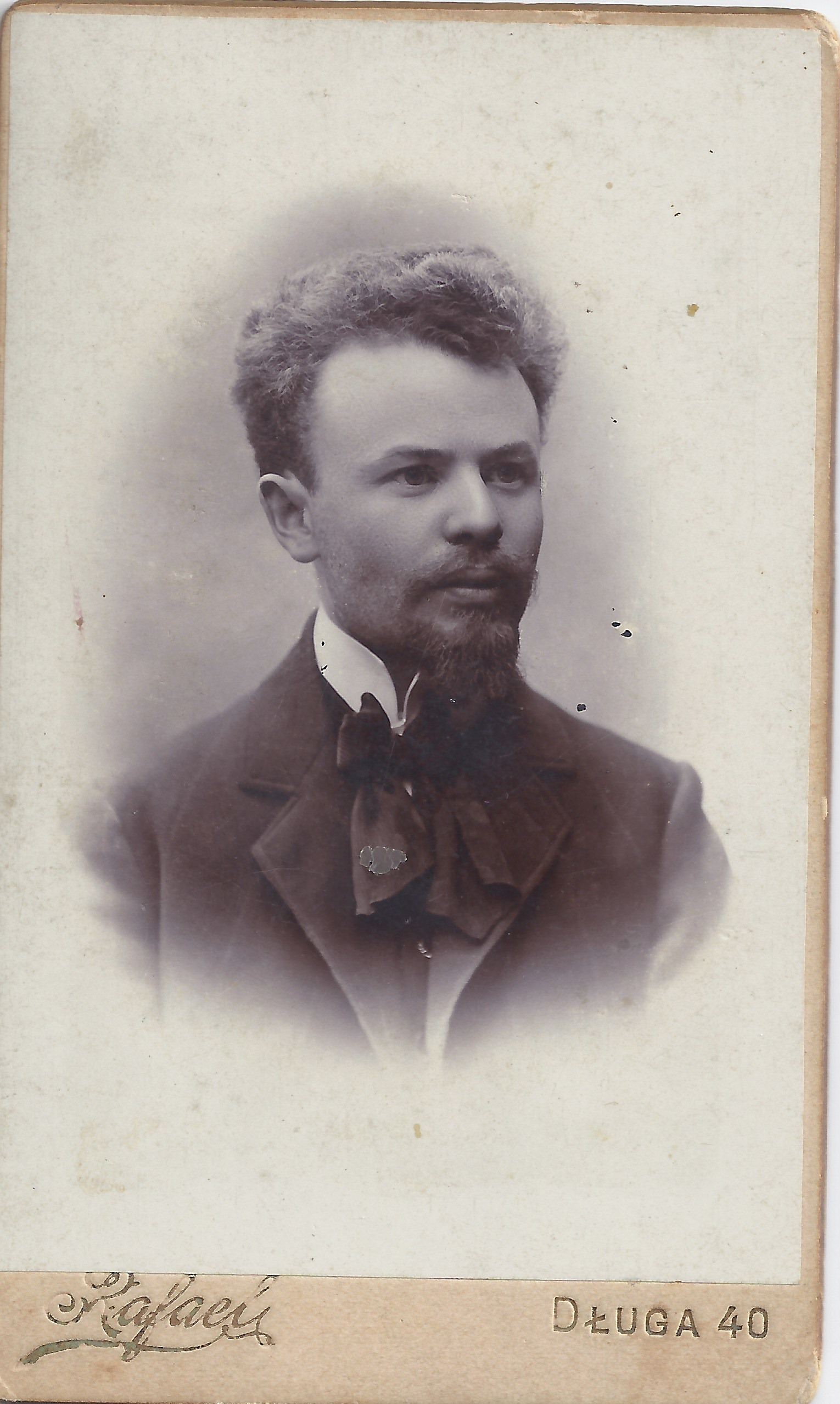 Shneur Zalman Pugachov portrait in Warsaw in his youth